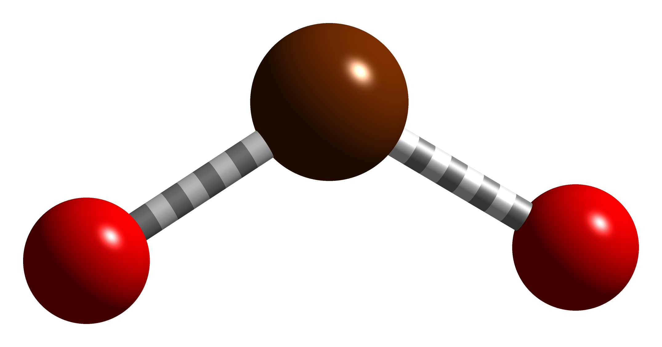 Ball-and-stick model of the bromine dioxide radical, [BrO2]•. Colour code: Bromine, Br: red-brown Oxygen, O: red Structure based on parameters from J. Chem. Phys. (1997) 107, 8292-8302. Structure calculated with Spartan Student 4.1, using the MP2 level of theory and the 6-311+G** basis set. Image generated in CrystalMaker 8.2.